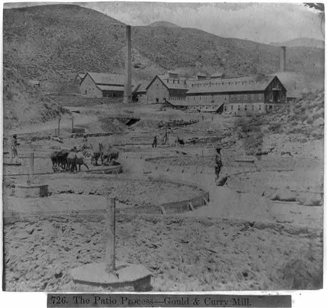 An albumen print of the Patio Process at the Gould & Curry Mill